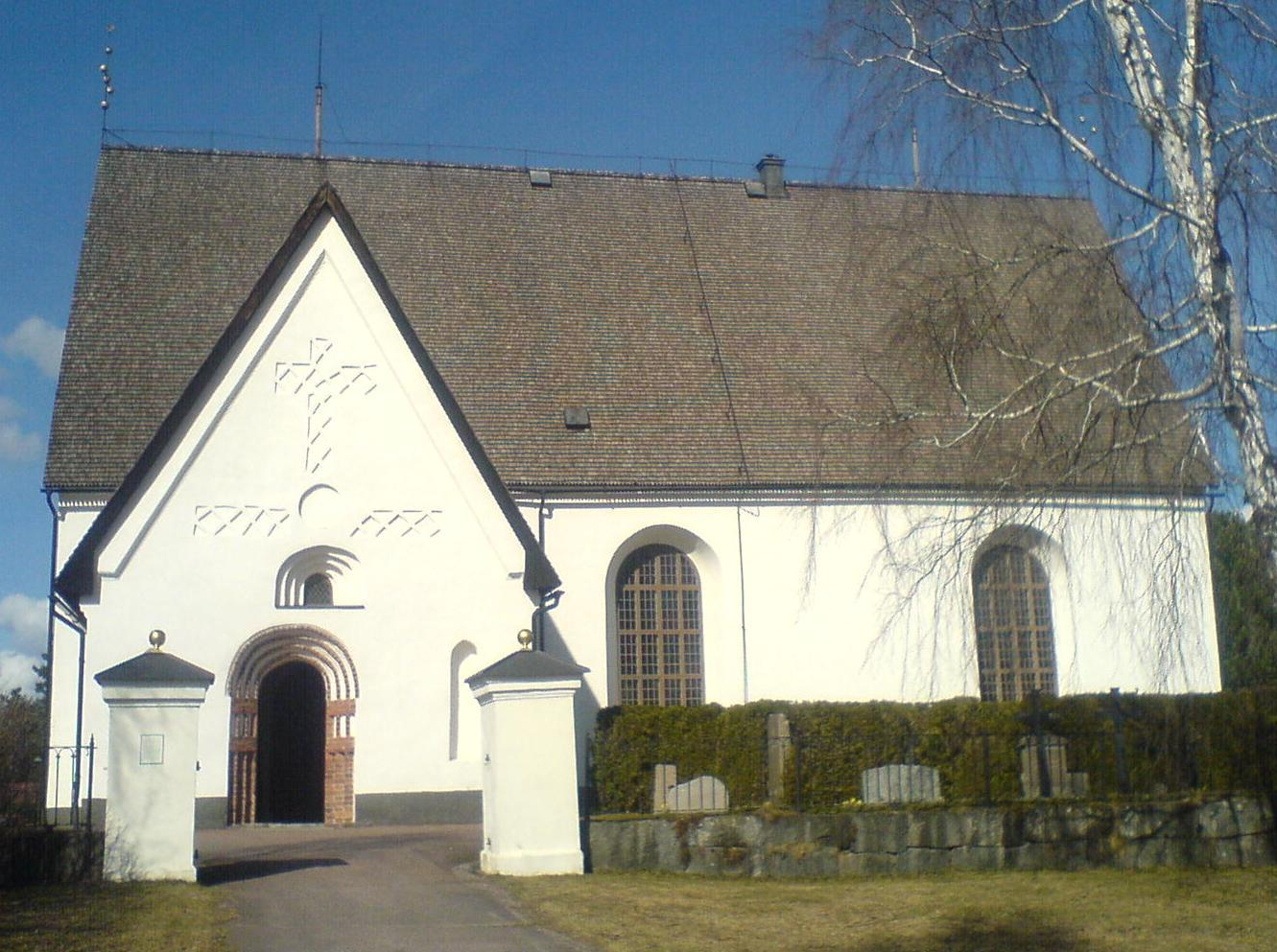 Vika church, Falun muicipality, Sweden